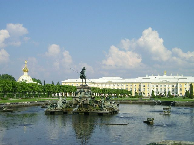 Fountain 'Neptune' in Peterhof